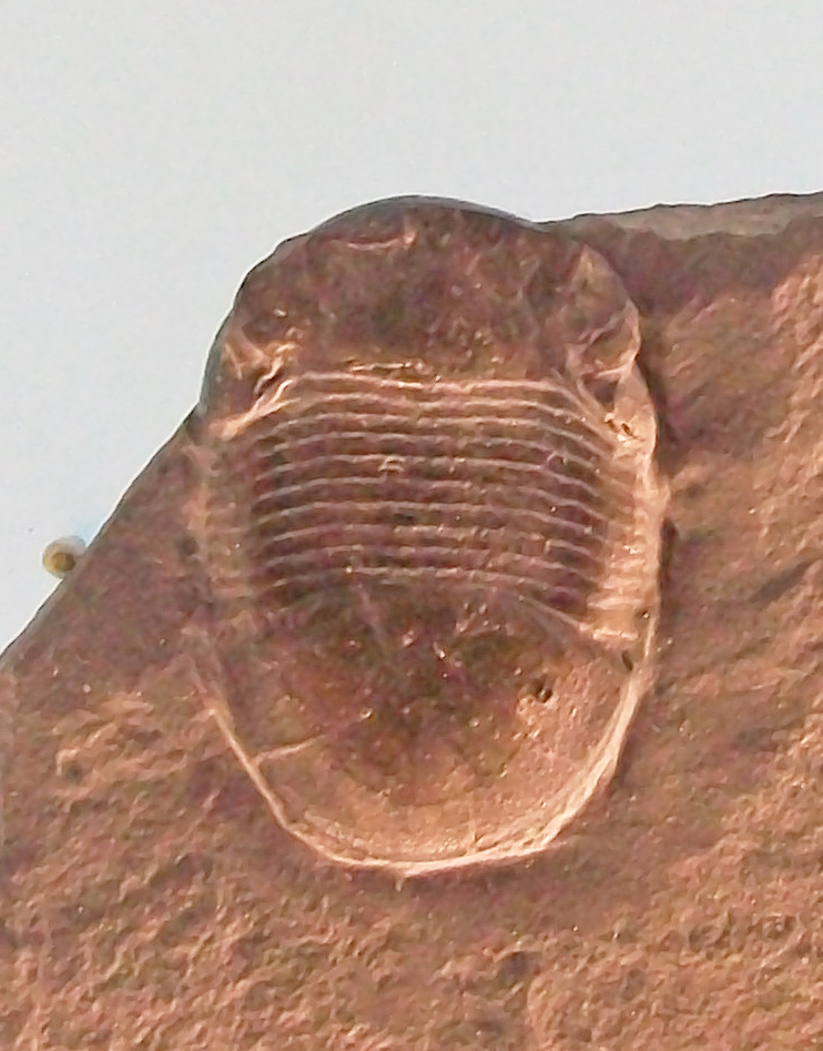 Fossil of Bumastus ioxus in the Field Museum of Natural History.